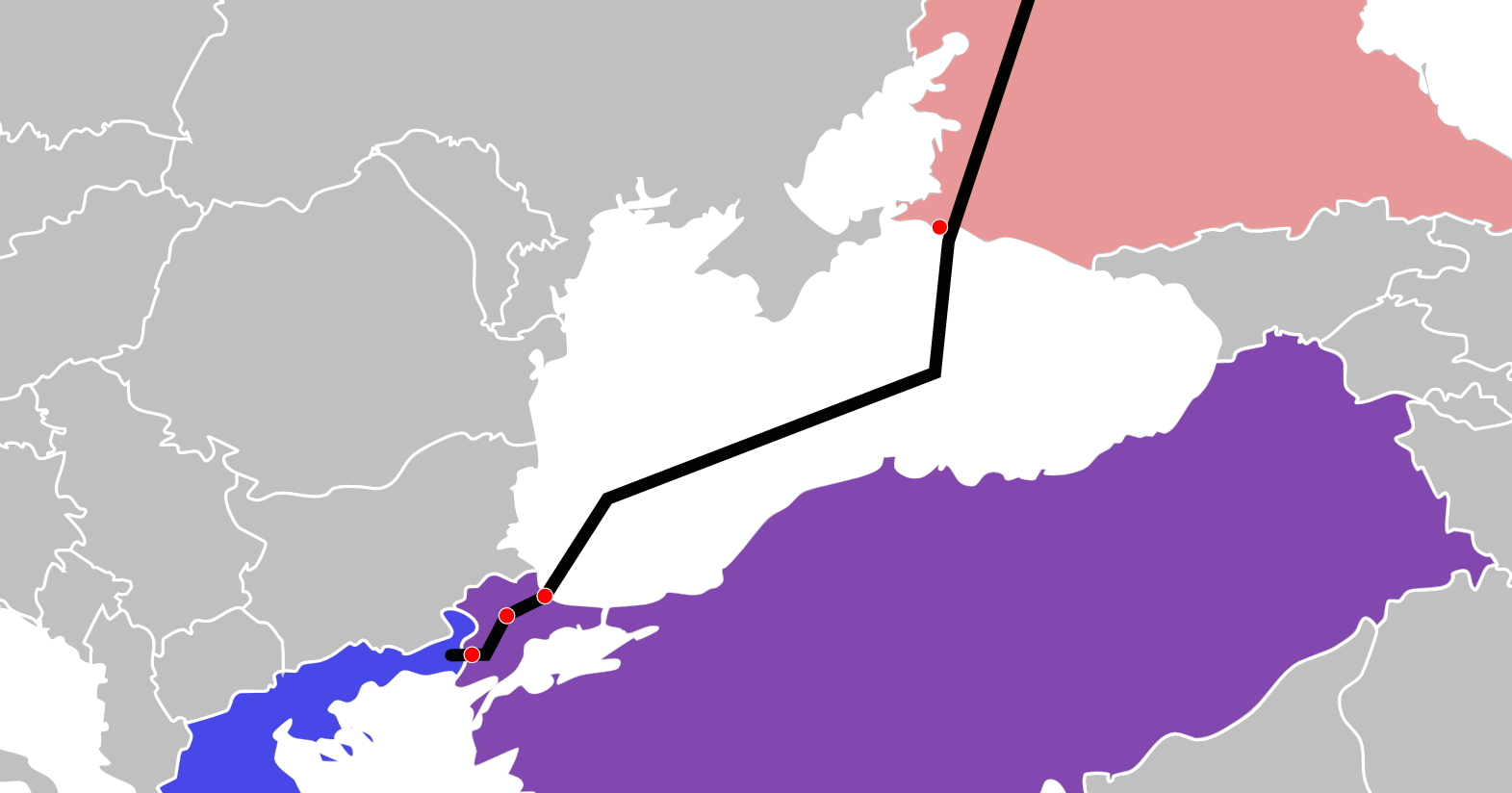 The Turkish Stream. Version of the map with the internationally recognised borders.